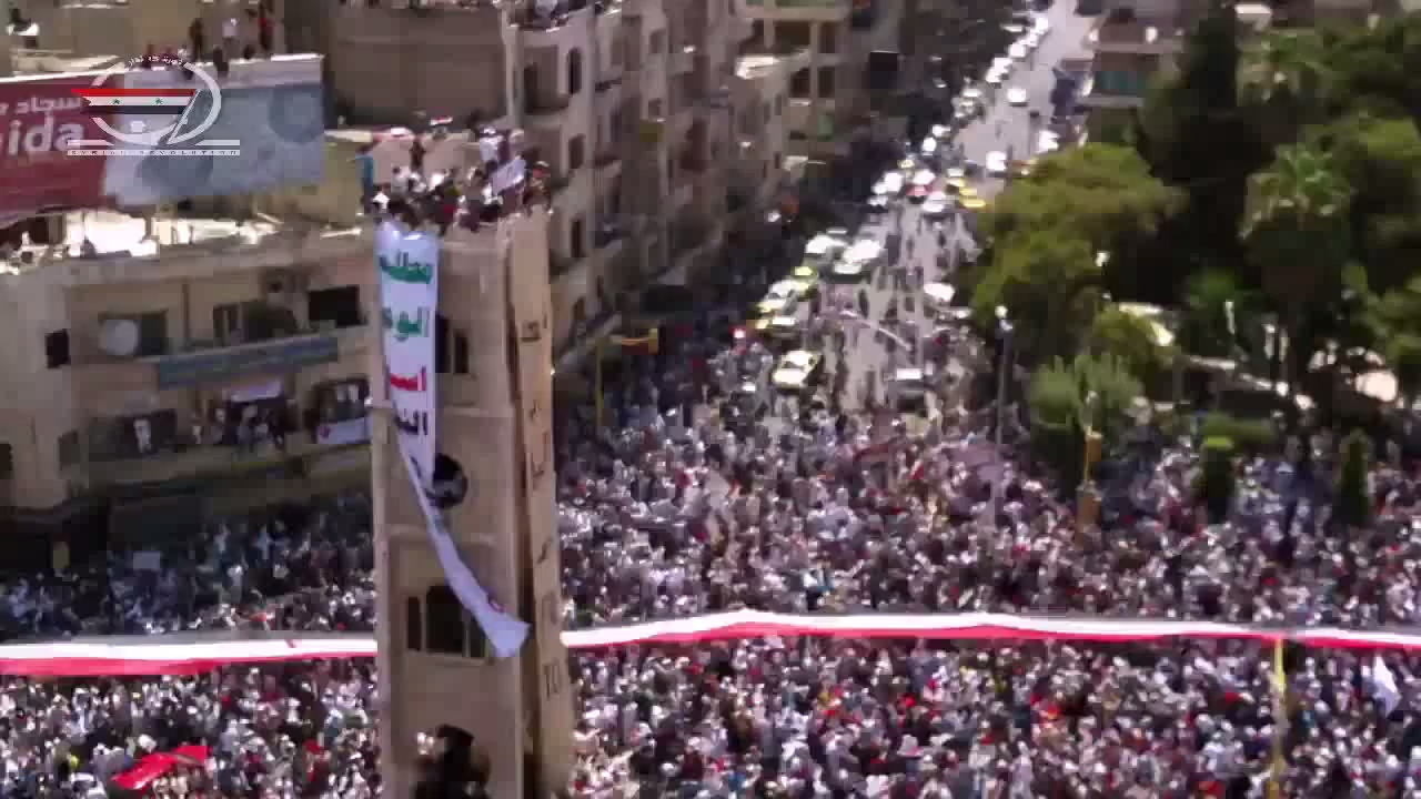 Thousands of protesters parade the flag of Syria and shout "Ash-shab yurid isqat an-nizam" in the Assi square of Hama during the siege in July 2011.